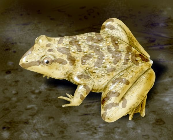 Eodiscoglossus